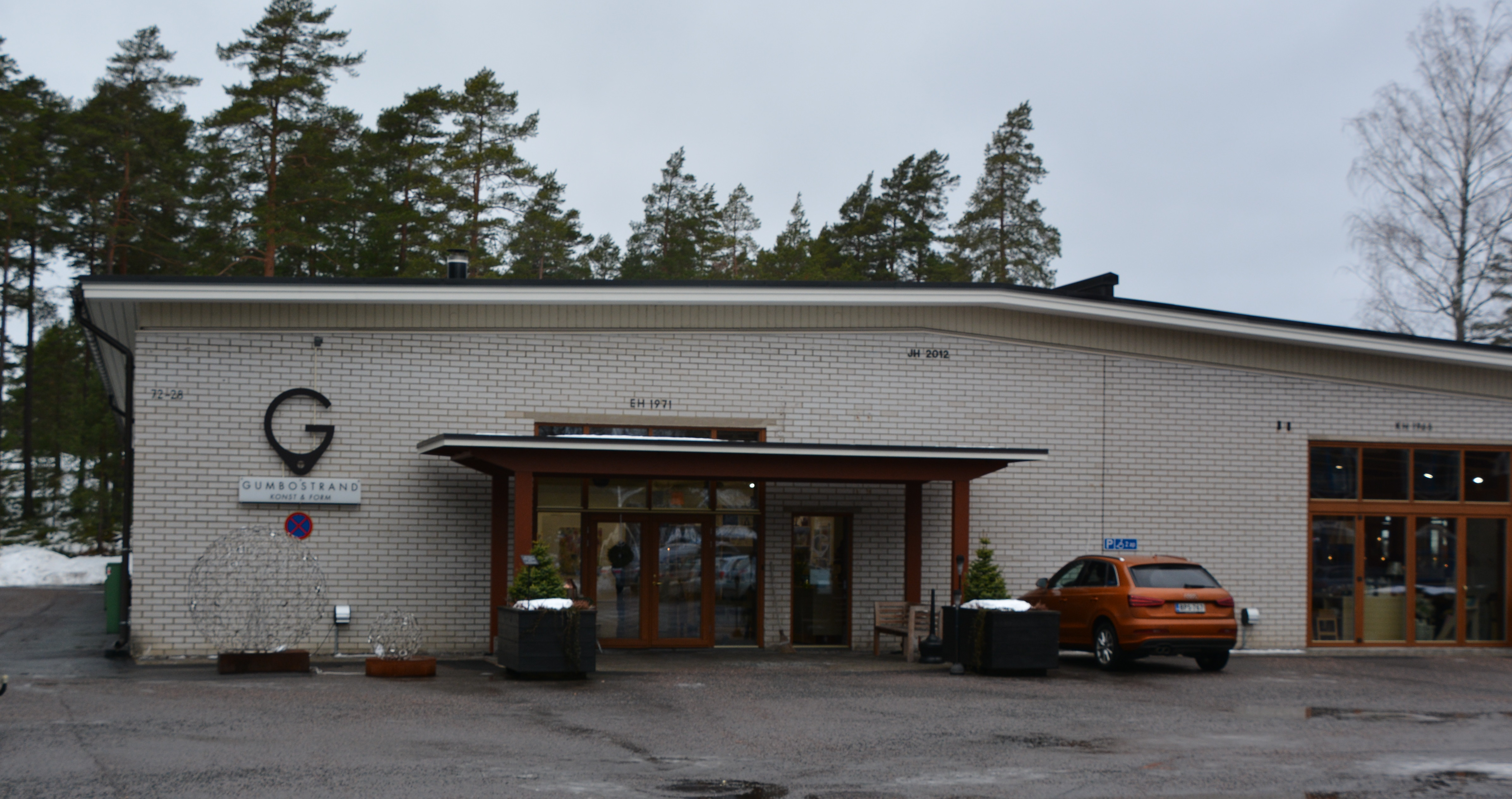 Gumbostrand Konst och Form